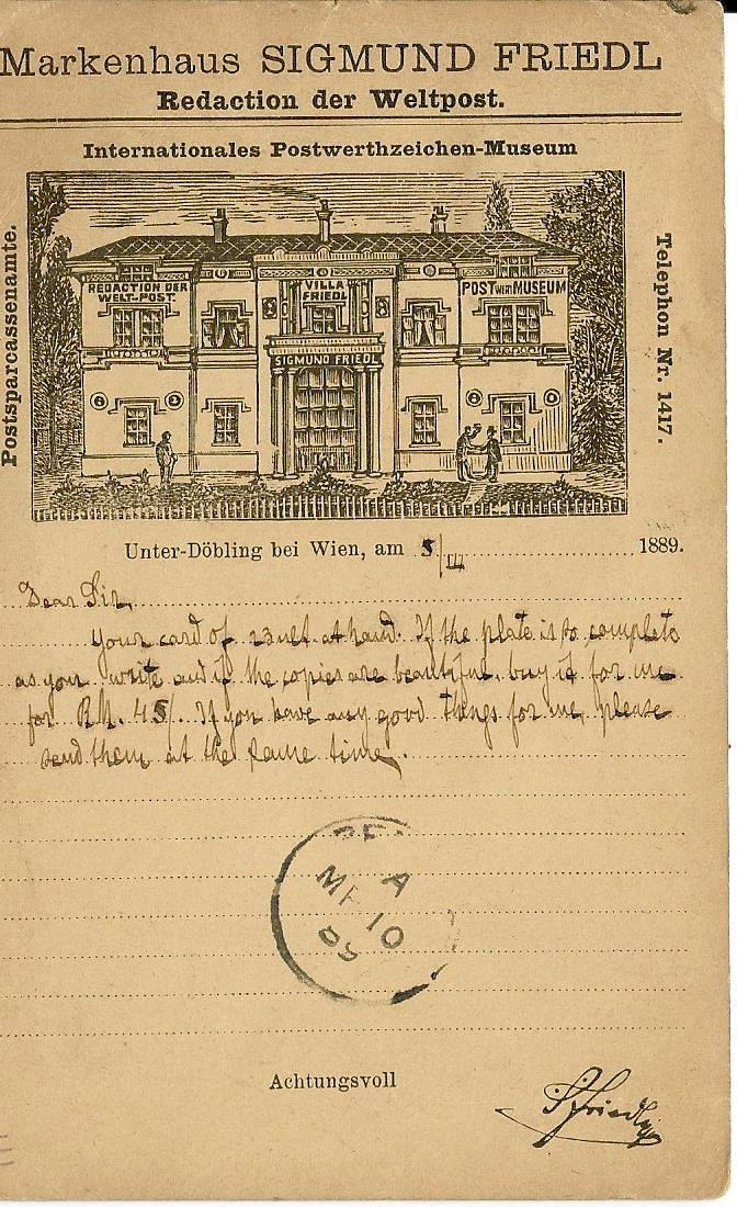 A printed advertising card from Sigmund Friedl. Text in